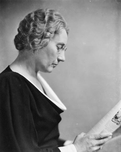 Federal Member of Parliament, Agnes Macphail, seen here on May 14, 1934, represented the electoral district of Grey Southeast in the Canadian House of Commons.